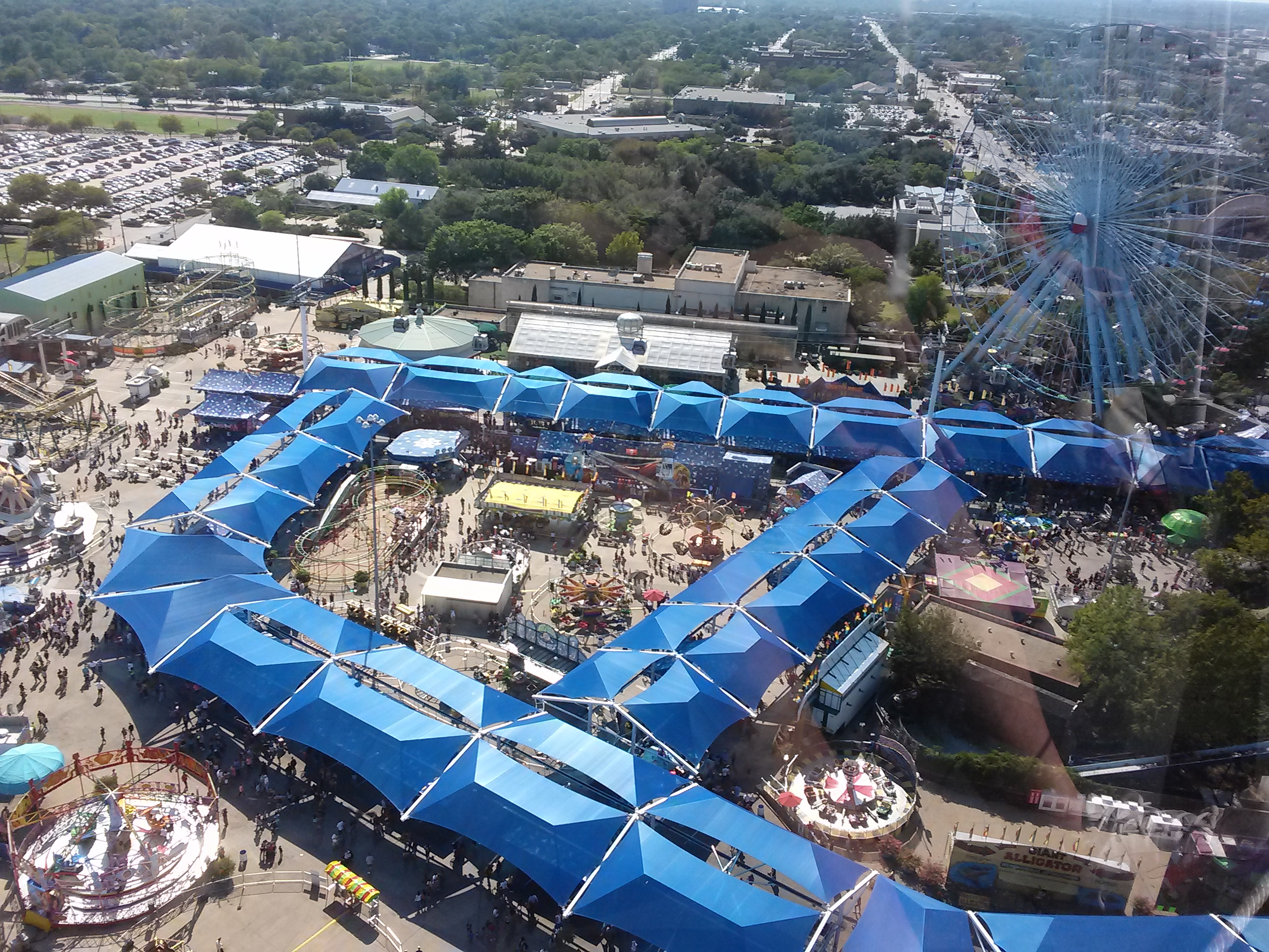 Aerial view of Texas State Fair